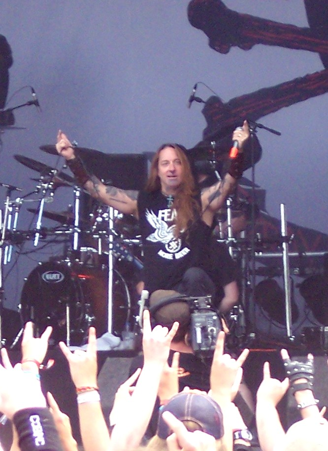 Dez Fafara, from the music band DevilDriver, live at Hellfest Summer Open Air.